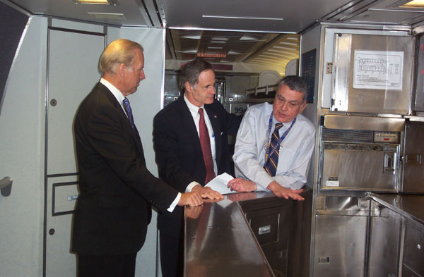 David Gunn (right) with then-Sen. Joe Biden and Sen. Tom Carper touring Amfleet dinette 28351's dining facilities.